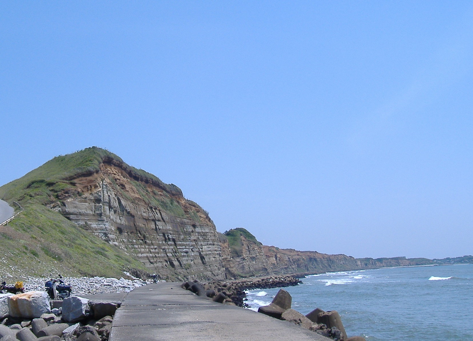 Byobugaura